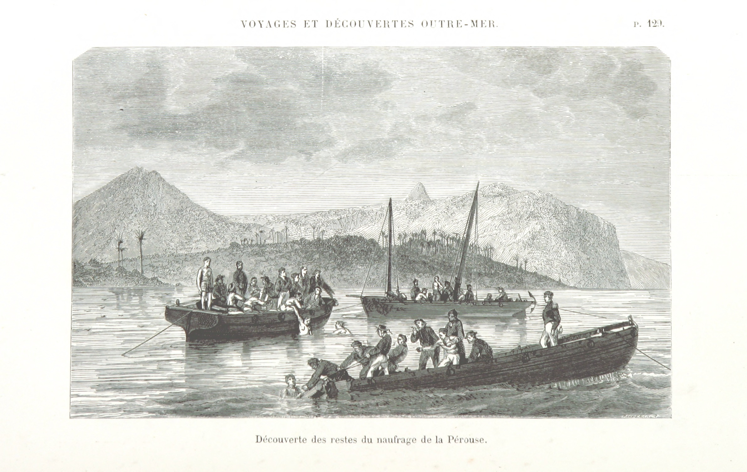 Image taken from: Title: "Voyages et Découvertes outre-mer au XIXe siècle ... Illustrations par Durand-Brager" Author: MANGIN, Arthur. Contributor: Durand-Brager Shelfmark: "British Library HMNTS 10027.g.18." Page: 164 Place of Publishing: Tours Date of Publishing: 1863 Issuance: monographic Identifier: 002364895 Explore: Find this item in the British Library catalogue, 'Explore'. Download the PDF for this book (volume: 0) Image found on book scan 164 (NB not necessarily a page number) Download the OCR-derived text for this volume: (plain text) or (json) Click here to see all the illustrations in this book and click here to browse other illustrations published in books in the same year. Order a higher quality version from here.